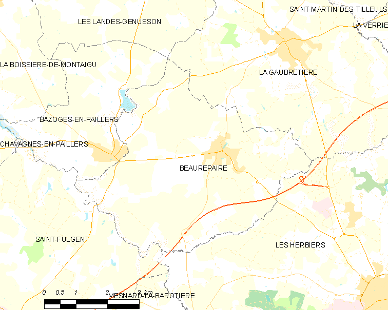 Map of French municipality Beaurepaire